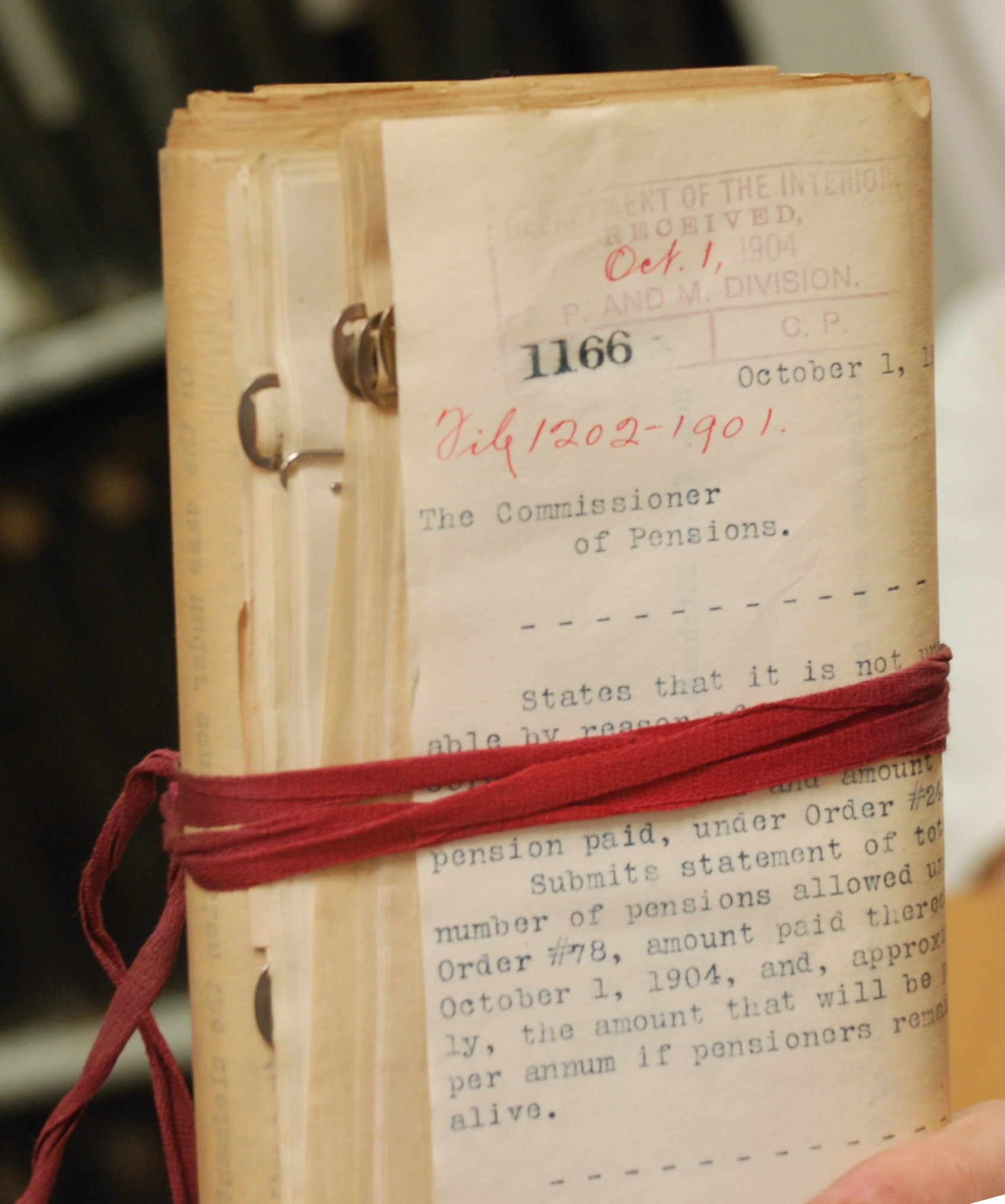 Backstage Pass Tour for Wikimedians at US National Archives at College Park.